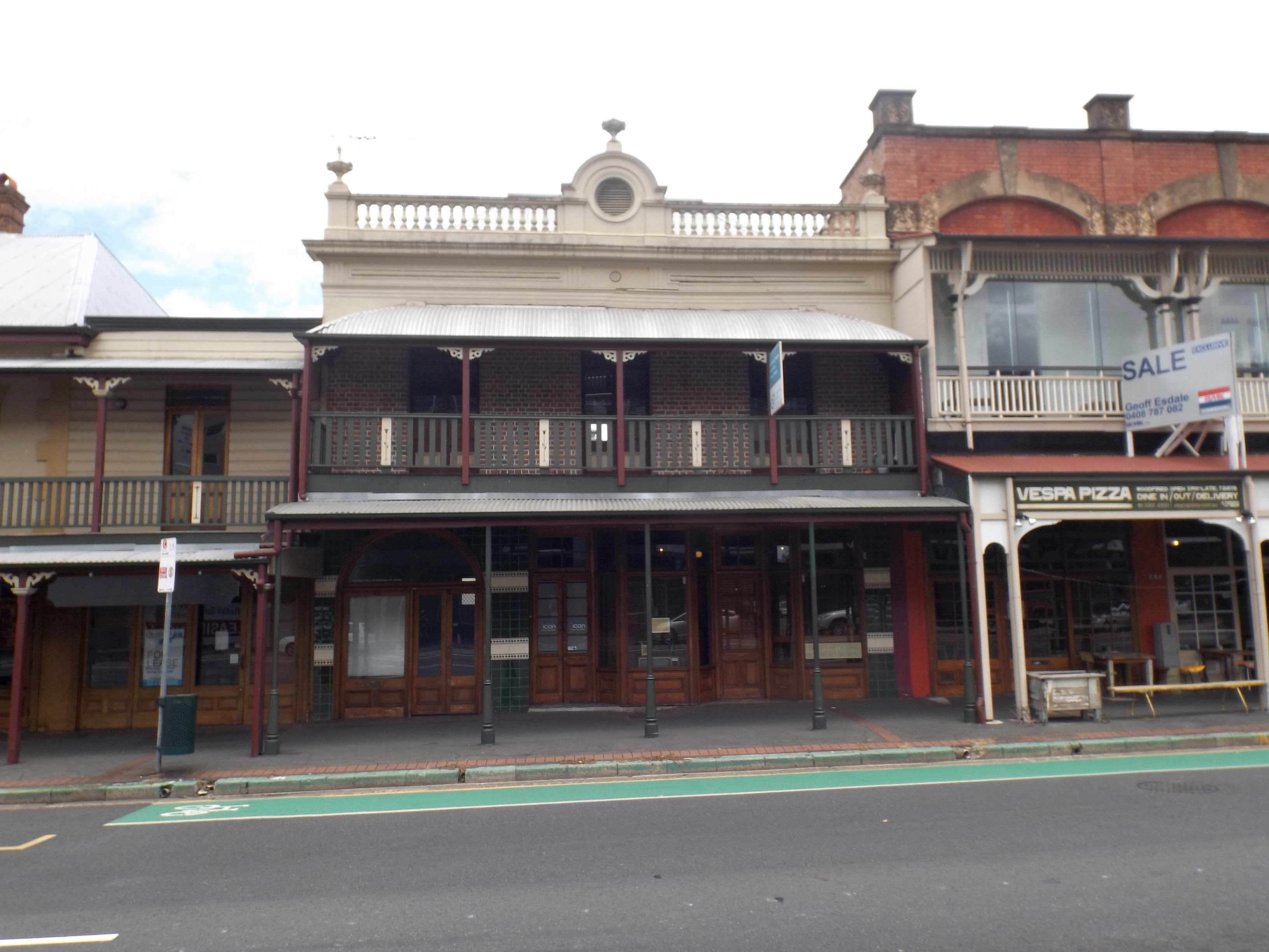 Photo of Hillyards Shop House along Stanley Street at Woolloongabba, Brisbane, Queensland, Australia.